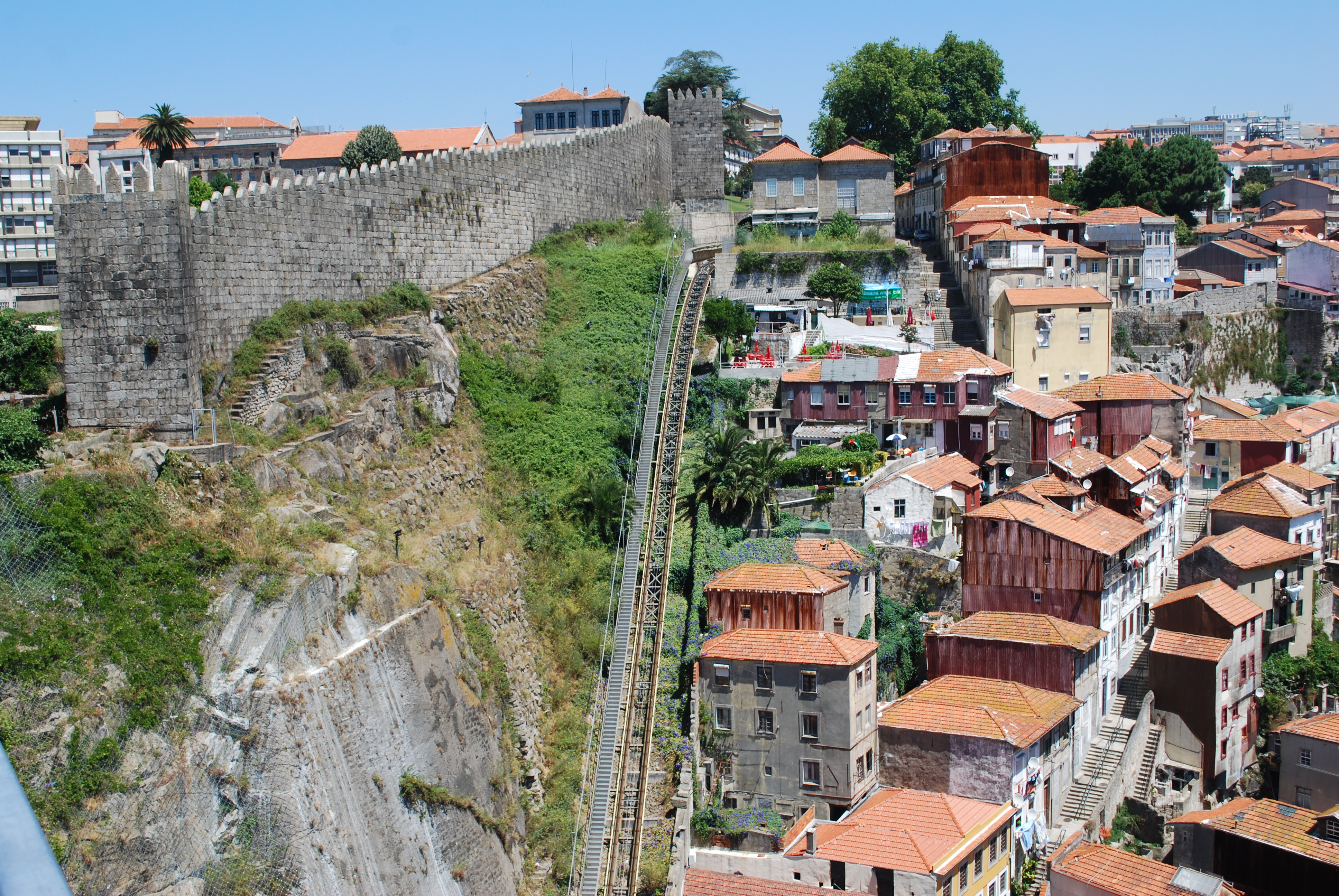 This file was uploaded for Wiki Loves Monuments in Portugal with the unique identifier 71120.